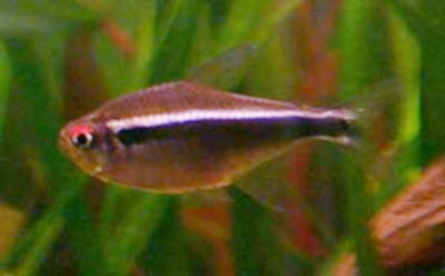 Black neon tetra